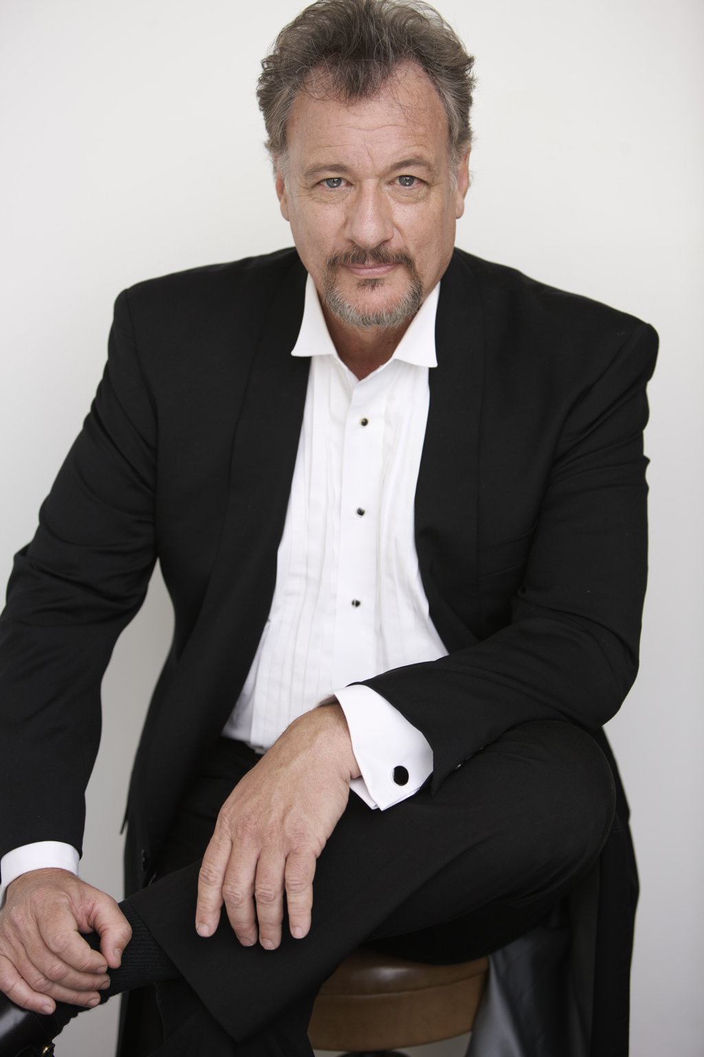 John de Lancie opera